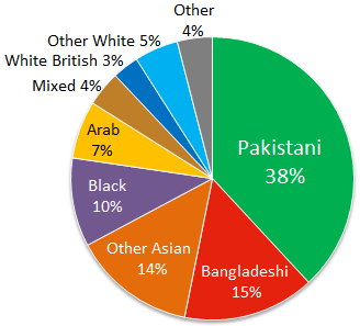 Ethnic composition of Muslims in the United Kingdom